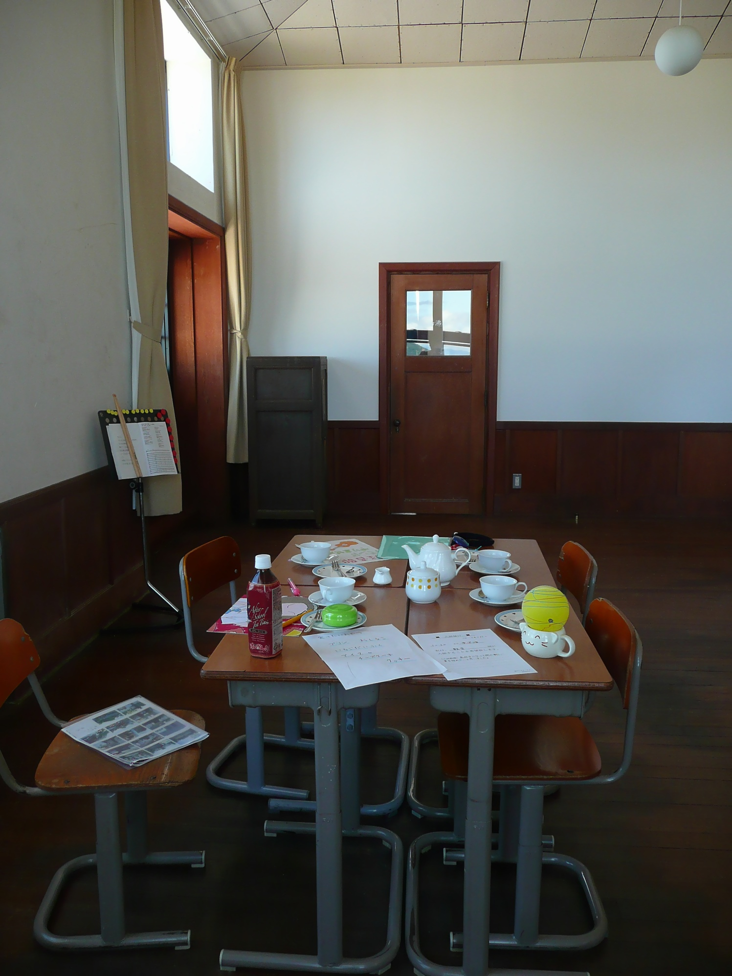 After School Tea Time (TV Anime "K-ON!" - Toyosato Elementary School Conference Room)